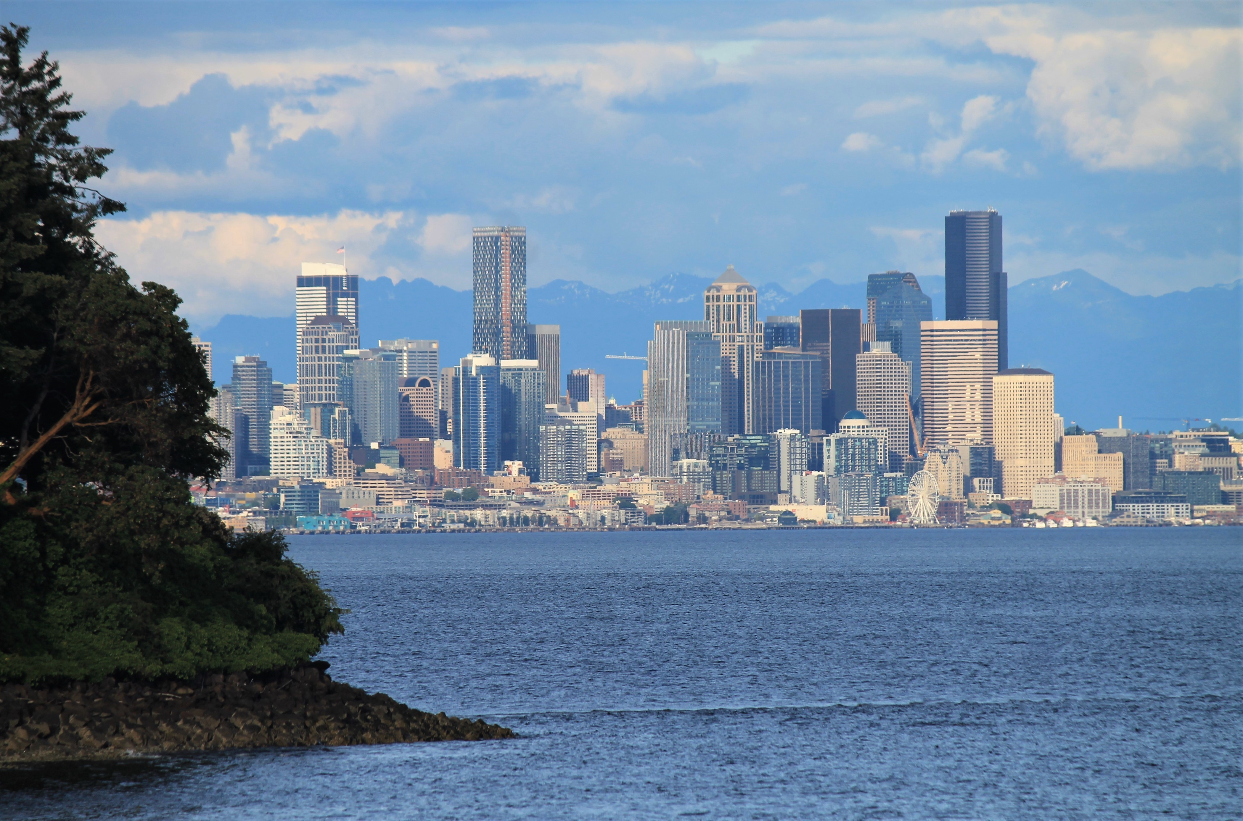 This is a photo of downtown Seattle, as seen when arriving to Bainbridge Island on the Washington State Ferry Wenatchee.